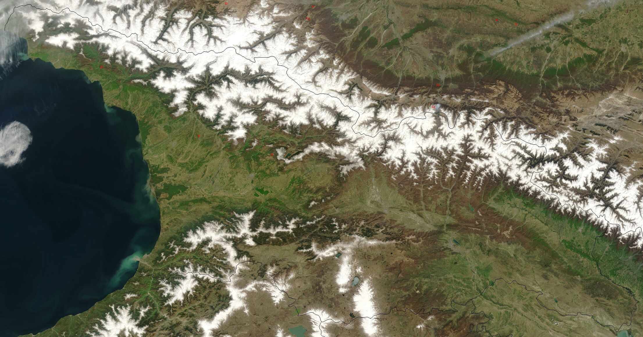 Satellite image of Georgia in May 2003.